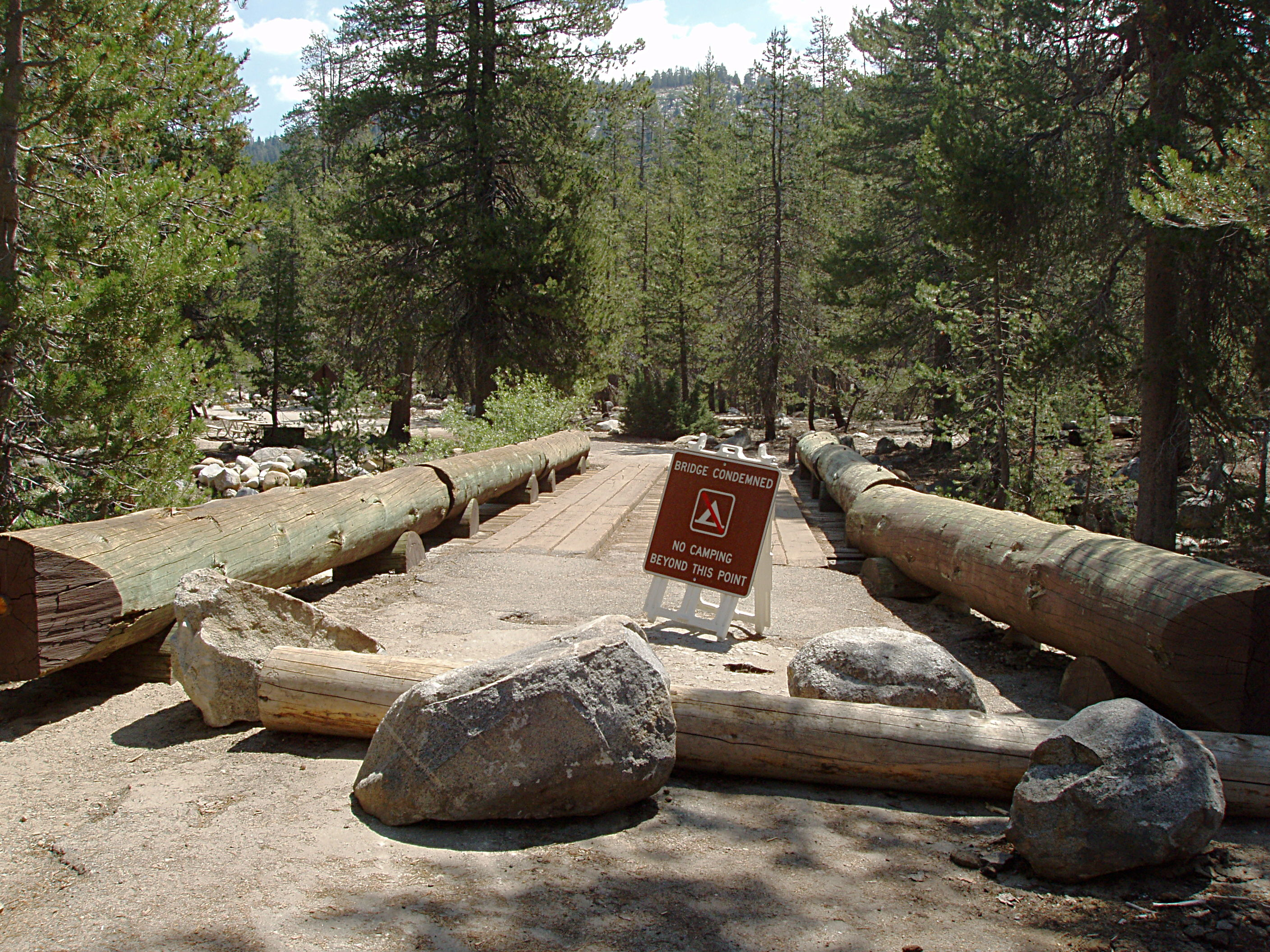 Bridge at Yosemite Creek Campground